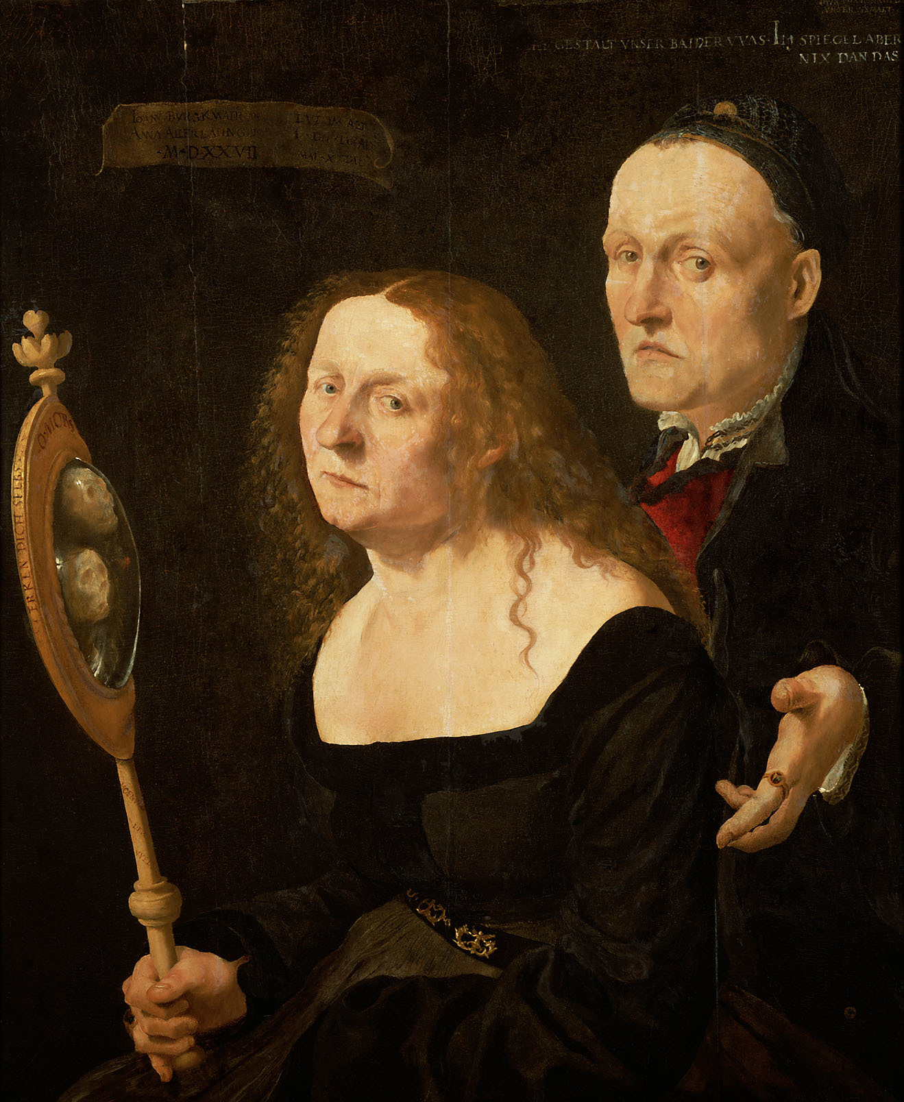 Depicted person: Hans Burgkmair d. Ä. and Anna Burgkmair